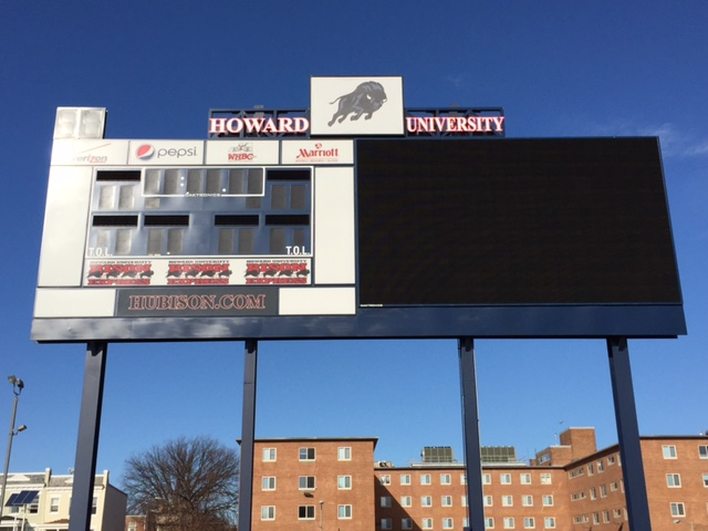 The Scoreboard.